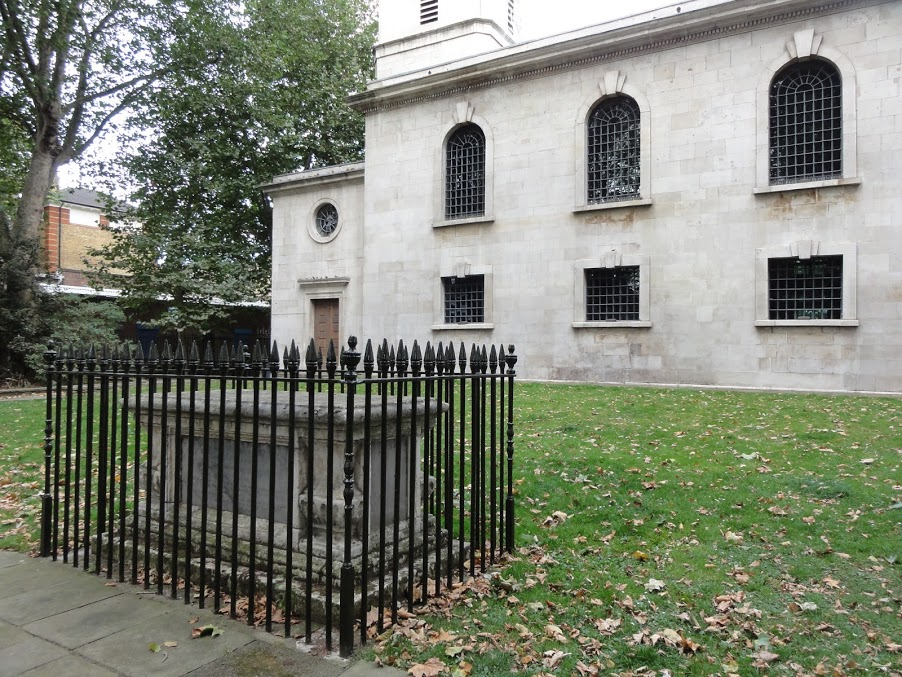 William Caslon's family grave at St Luke's, Old Street, London.